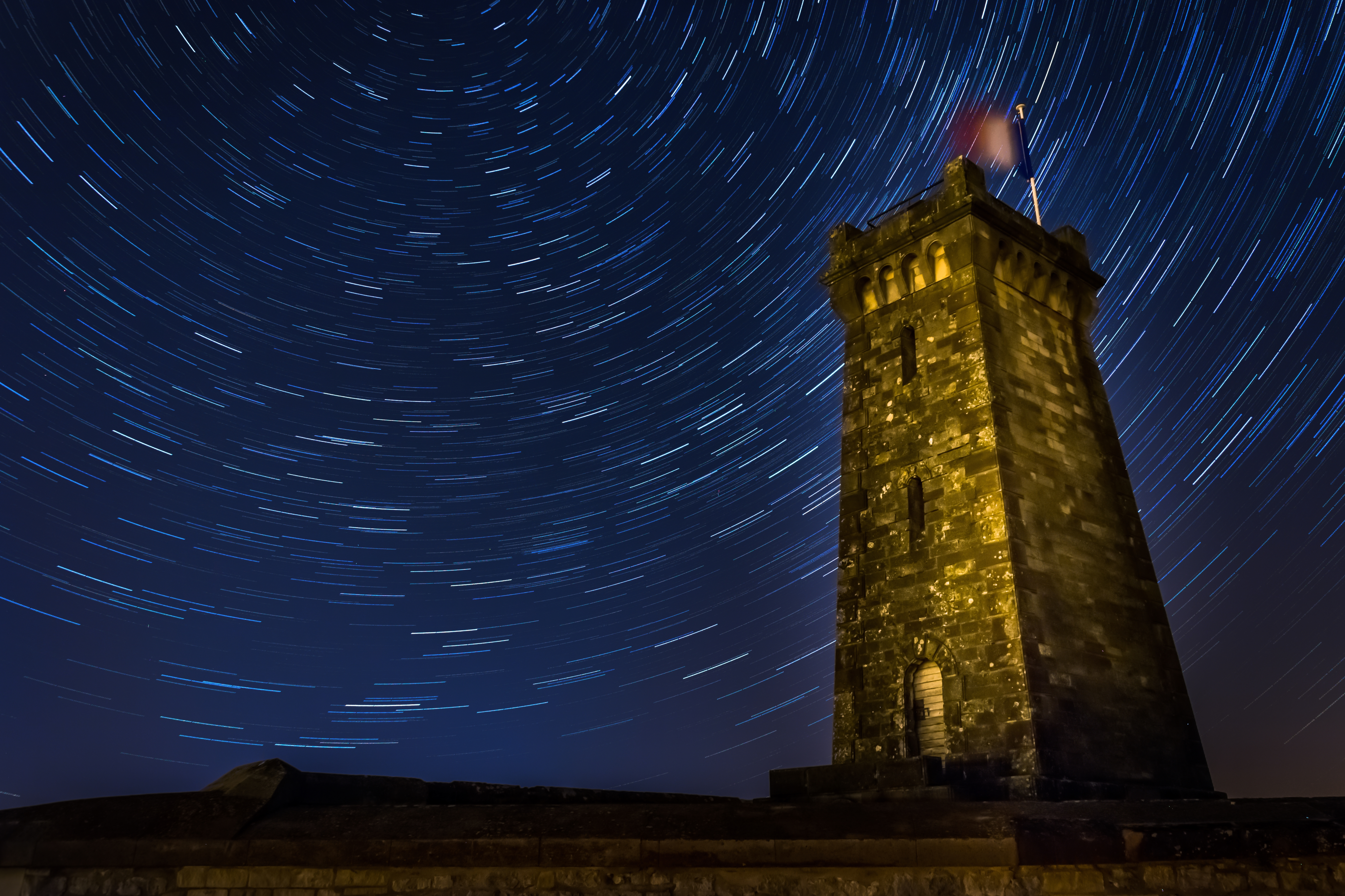 The Miotte tower by night (Belfort, France)